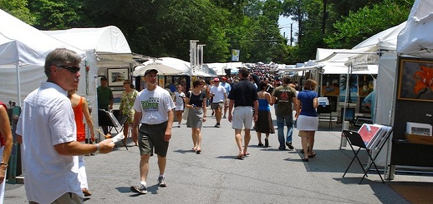 Art and food market, Virginia-Highland Summerfest, Atlanta, 2011